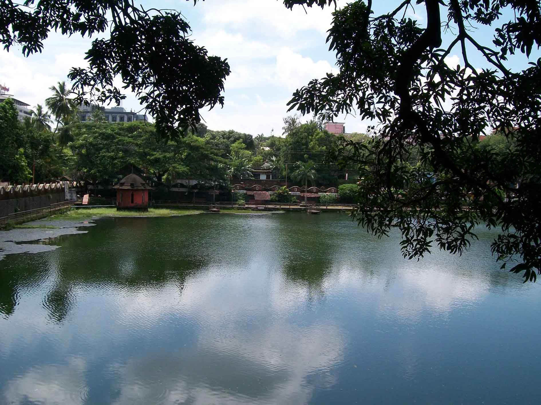 Lake, Sakthan Thamburan Archaeological Museum,Thrissur